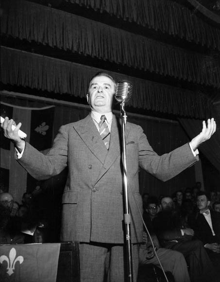 Quebec premier Maurice Duplessis speaking during the 1952 provincial electoral campaign